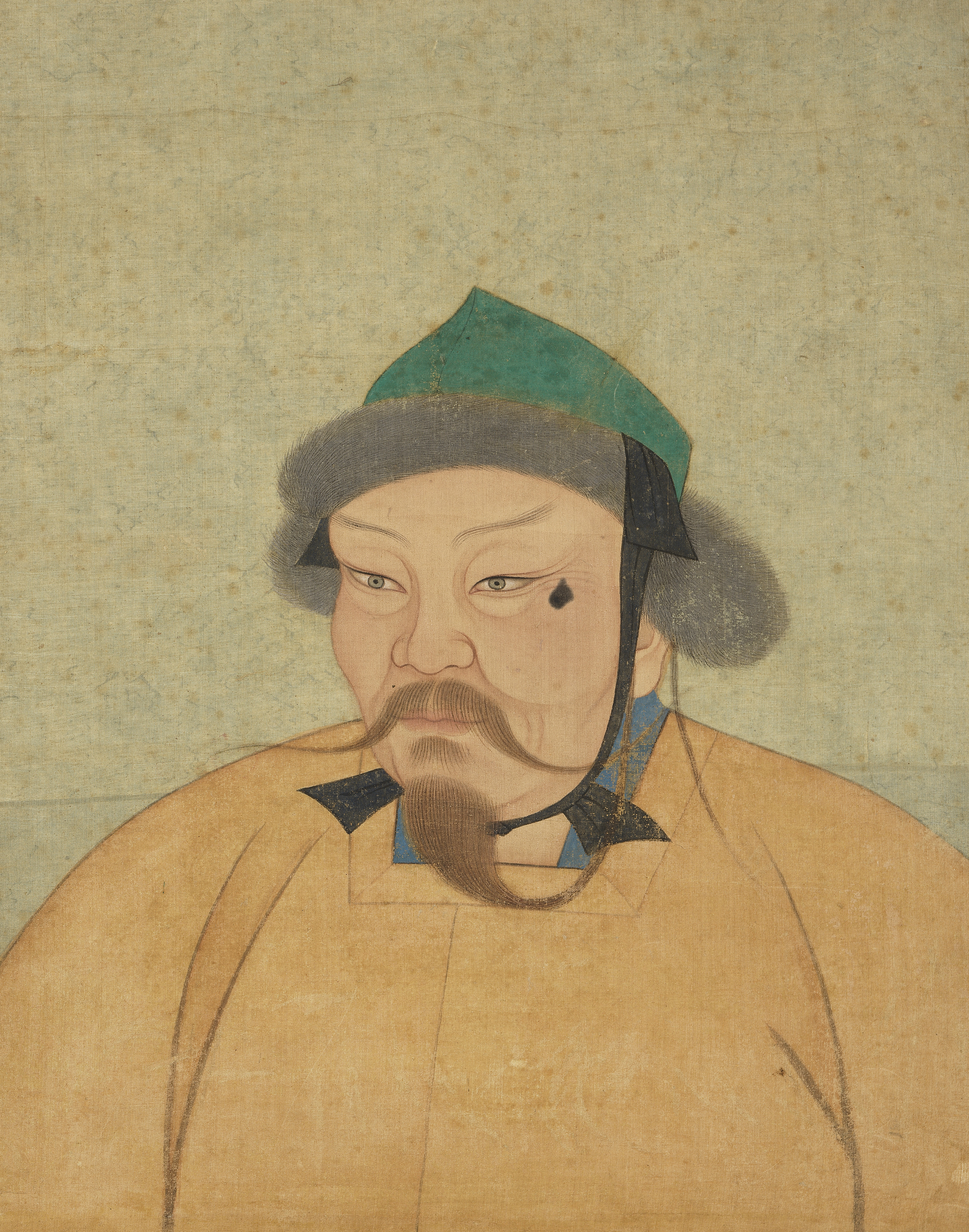 Ögedei Khan. Portrait cropped out of a page from an album depicting several Yuan emperors (Yuandai di banshenxiang), now located in the National Palace Museum in Taipei (inv. nr. zhonghua 000324). Original size is 47 cm wide and 59.4 cm high. Paint and ink on silk. For the full page, see Image:YuanEmperorAlbumOgedeiFull.jpg.